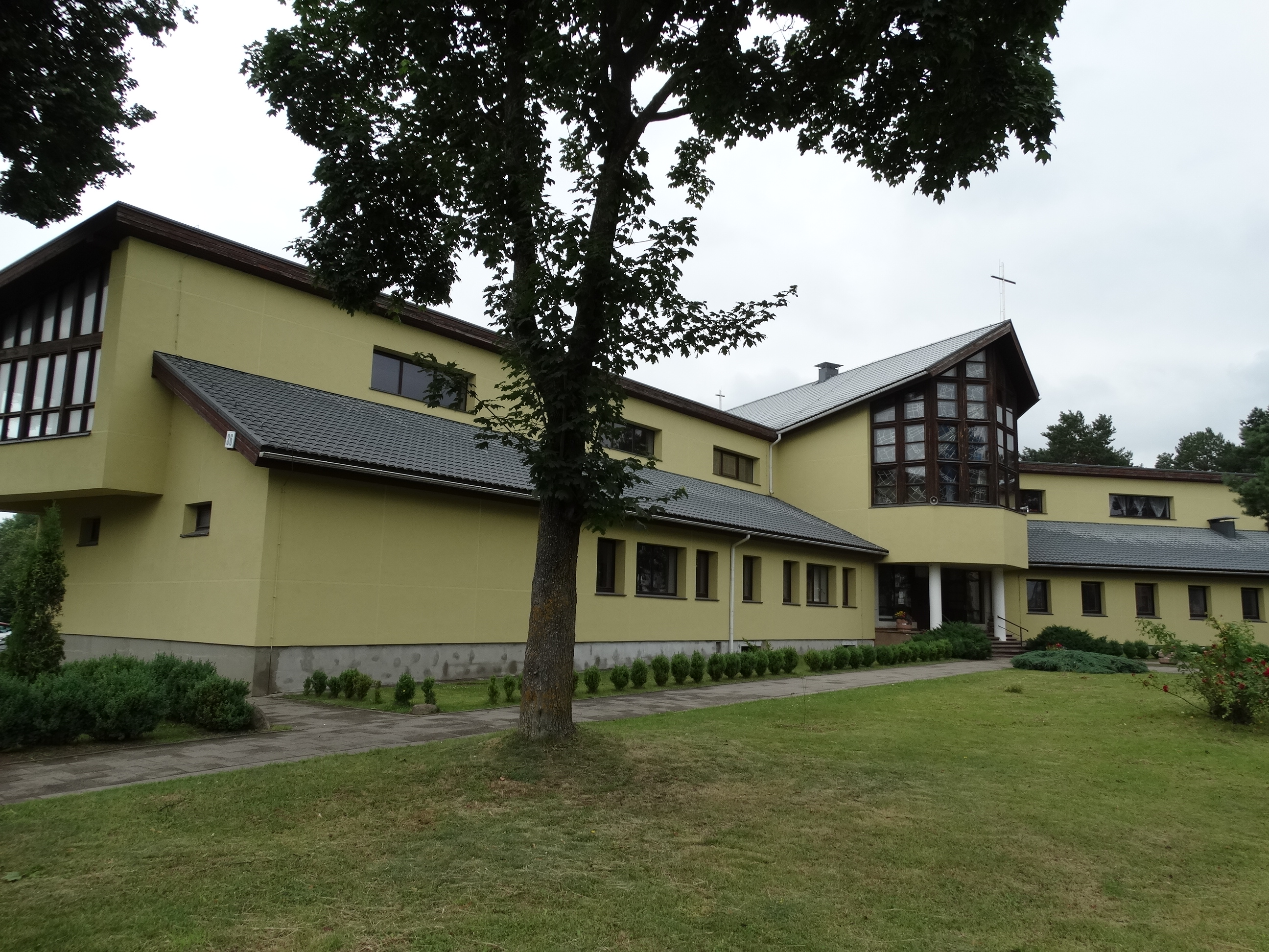 Chapel, Grigiškės, Lithuania